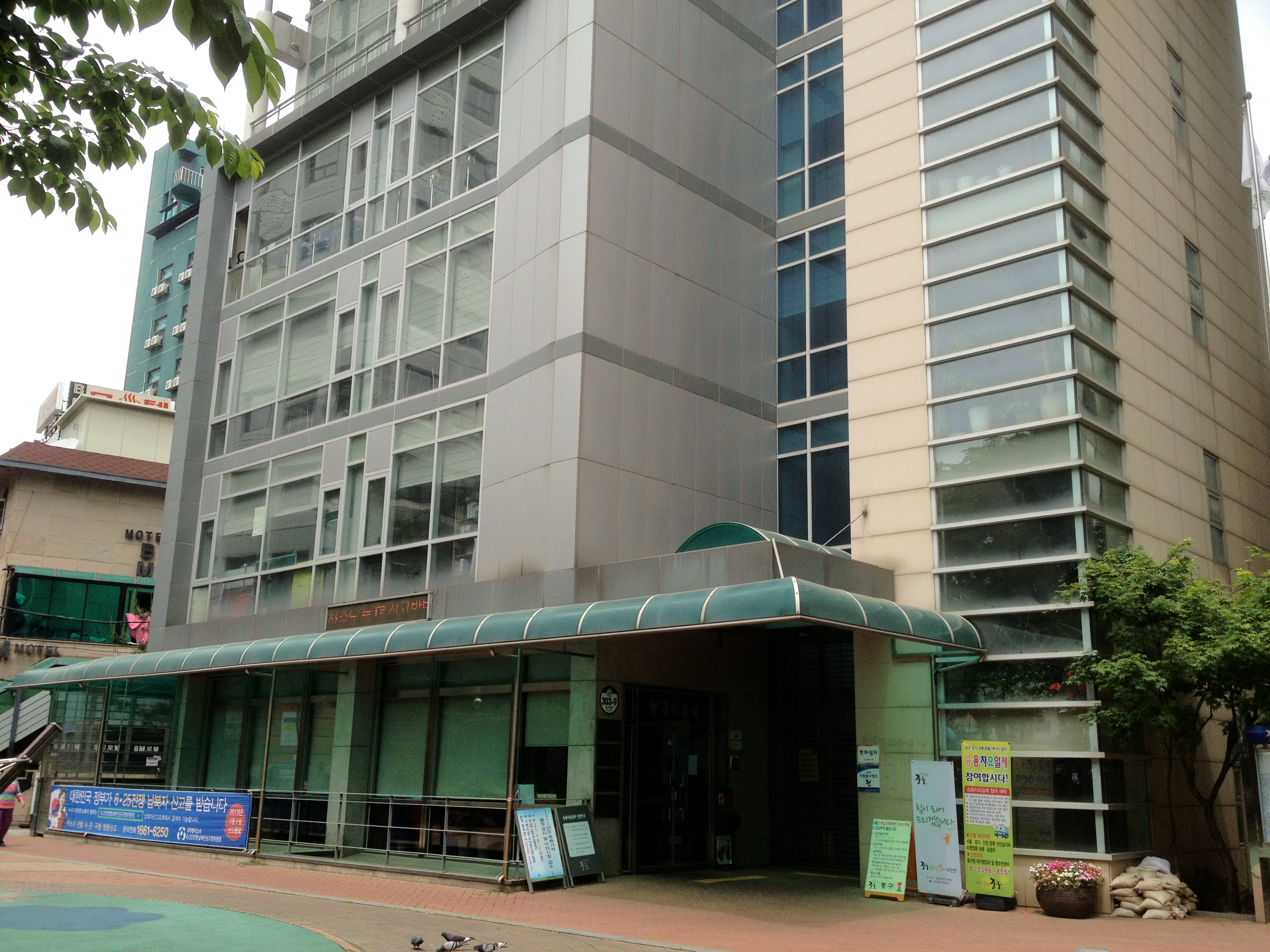 Gwanghui-dong Comunity Service Center(Jung-gu)